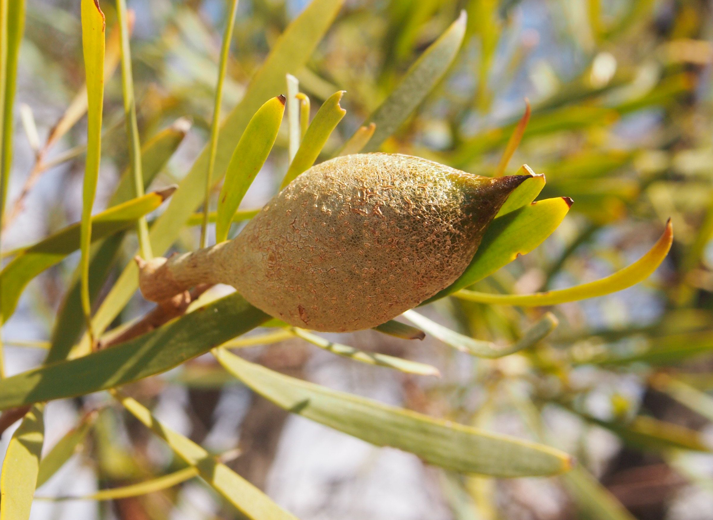 Hakea arborescens fruit